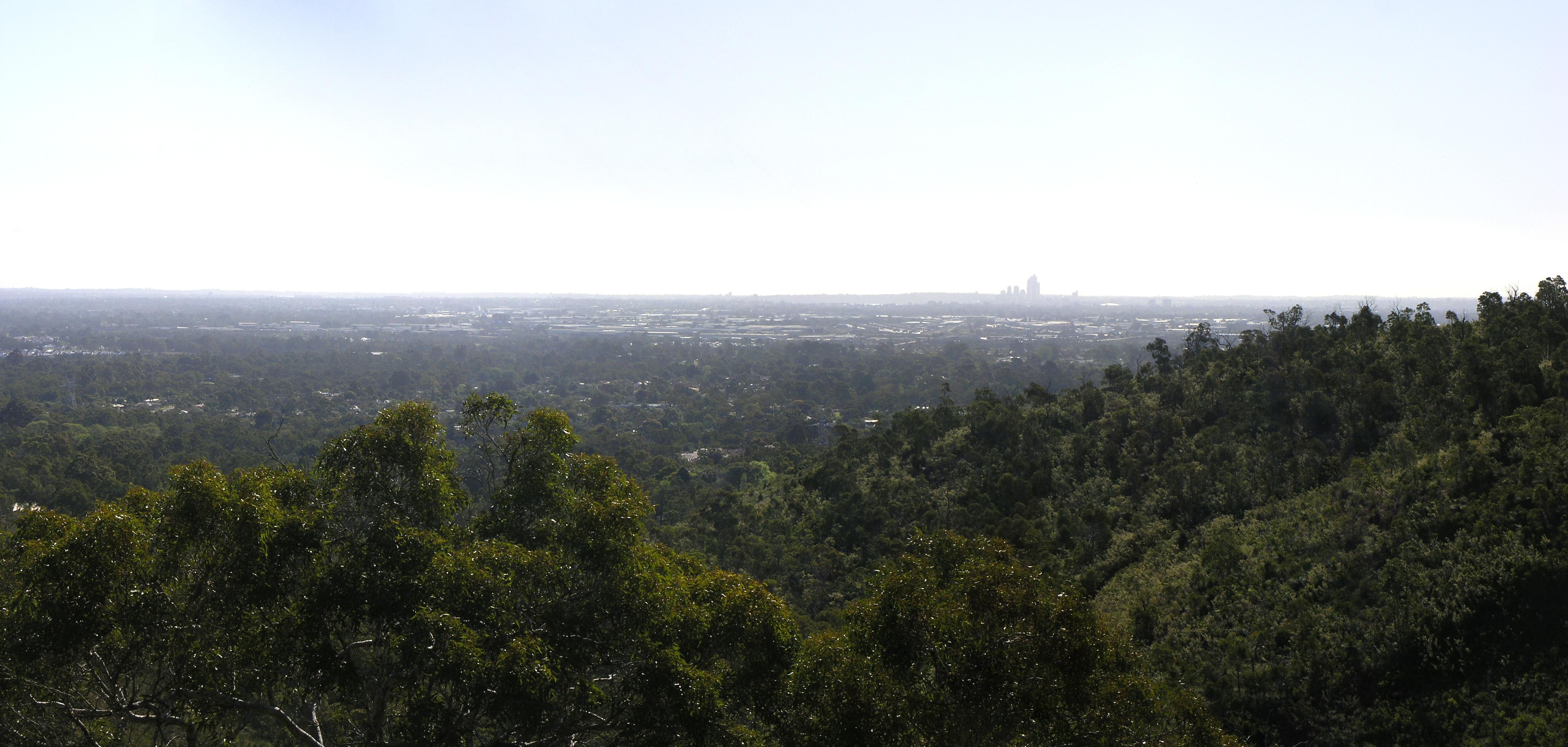 Taken by me at Lesmurdie Falls for this article